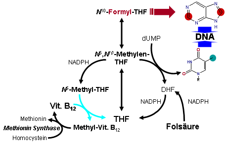 Author: PD Dr. med. habil. Stephan Gromer Shown is a simplified sketch of the metabolism of folic acid and the interaction with vitamin B12 metabolism.